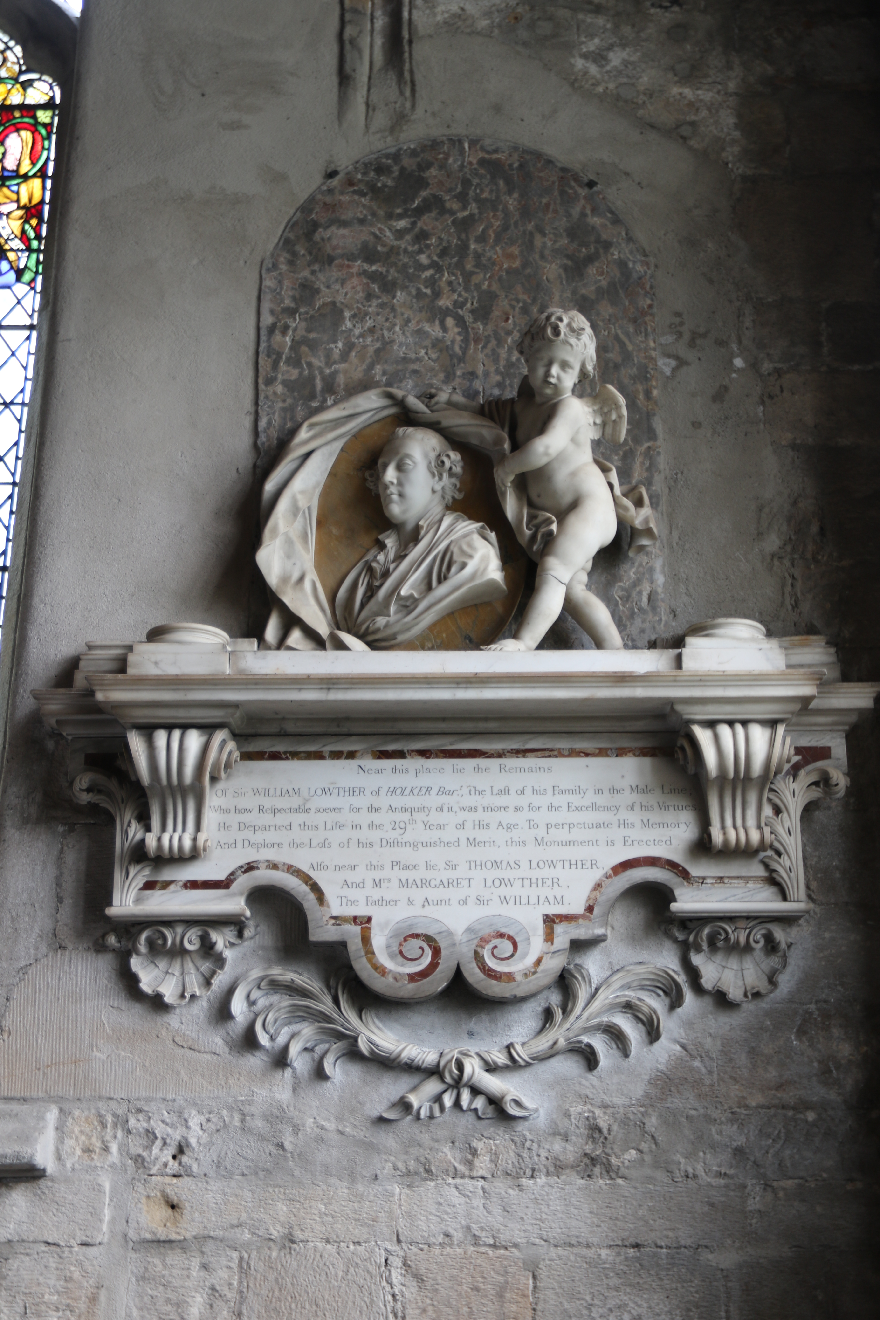 Sir William Lowther, Bart, of Holker.